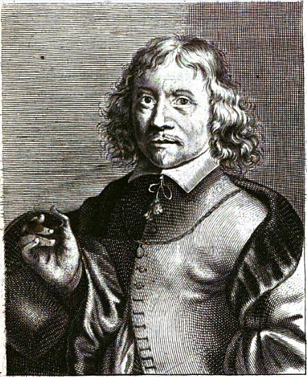 Portrait of Peeter Danckers de Rij